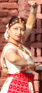 Sattriya Dance of Assam